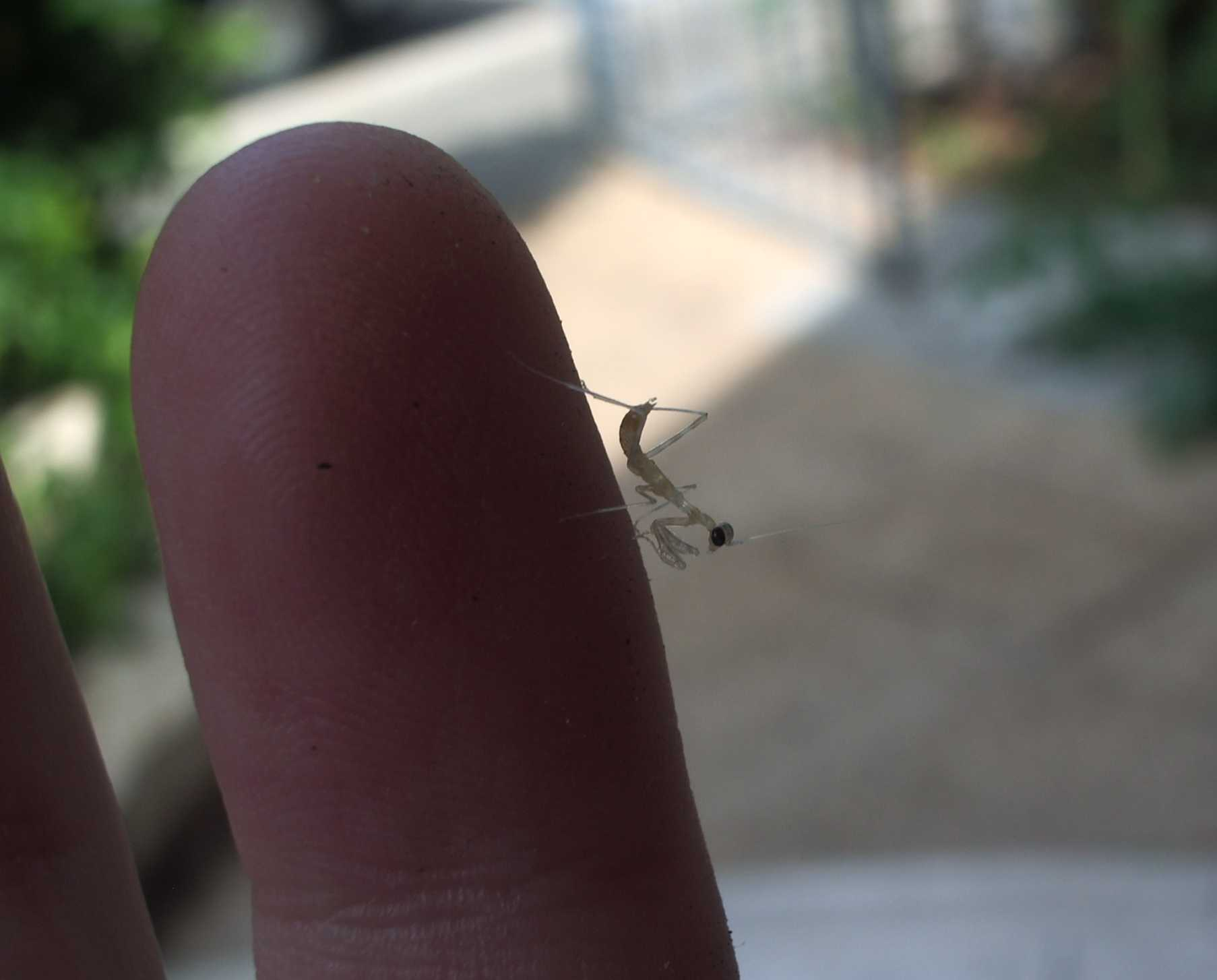 A praying mantis nymph (approx. 4mm long) on the index finger of an adult woman. Photographed in Tel-Aviv, Israel on May 25th 2006. I am the photographer and I give permission to use this photograph, though I would appreciate being notified if you intend to use it. This is most likely a Green mantis (Sphodromantis viridis), given where and when it was found, as well as the shape of the "belly". Minutes earlier I also photographed Image:IMGP1747 WEB.jpg and this is one of the nymphs portrayed there.